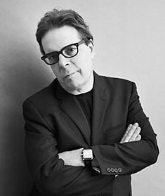 Douglas Kennedy, author